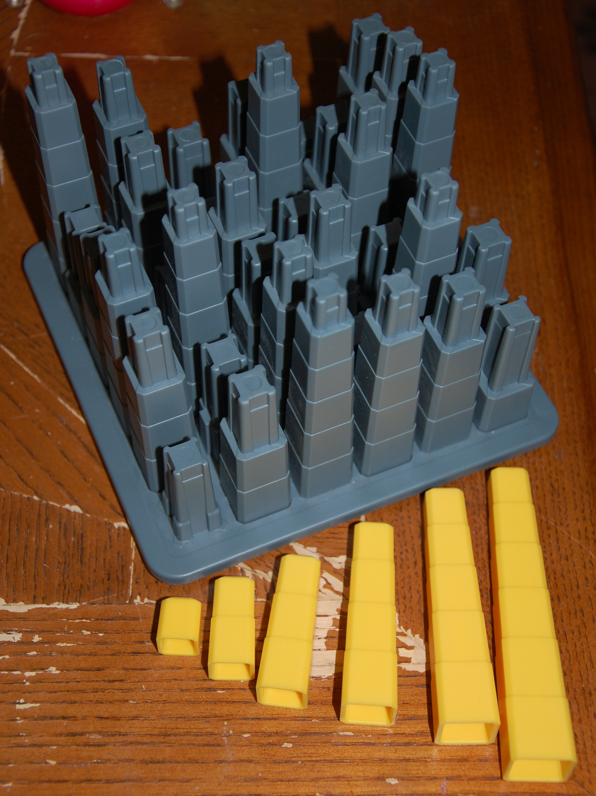 Cube 36 puzzle with pieces taken off the base